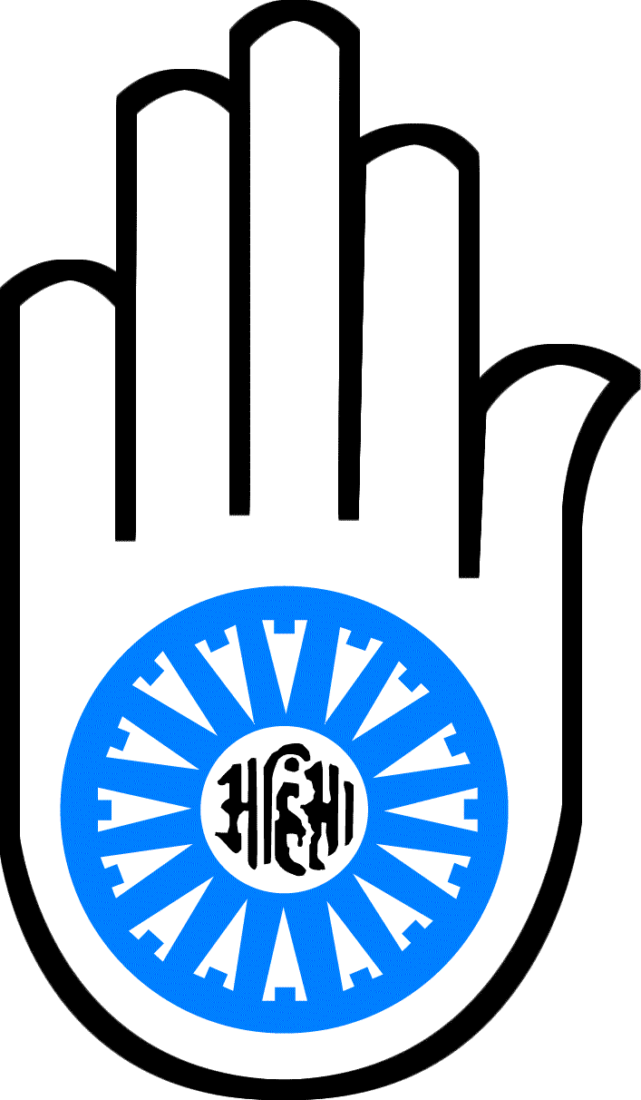 This is the jain symbol for non-violence. I made it myself because I needed a high resolution image for a project and I couldn't find one anywhere on the internet.